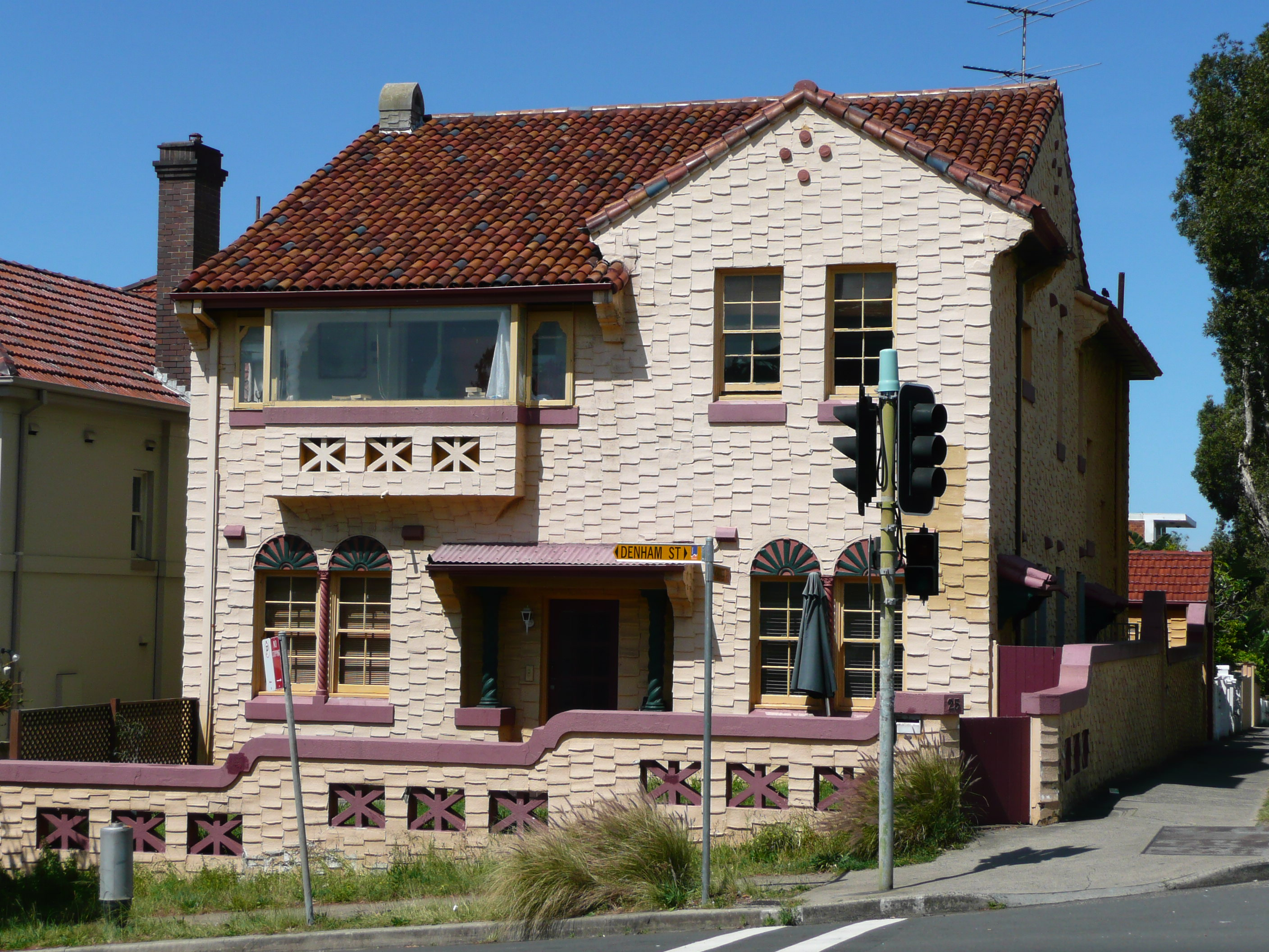 home, sydney